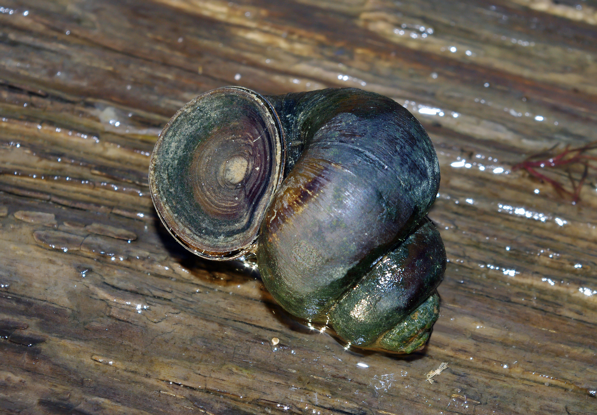 Living specimen of Lister's river snail (Viviparus contectus), a species of freshwater snail with an operculum and a gill. Estimated height: 3.5 cm.